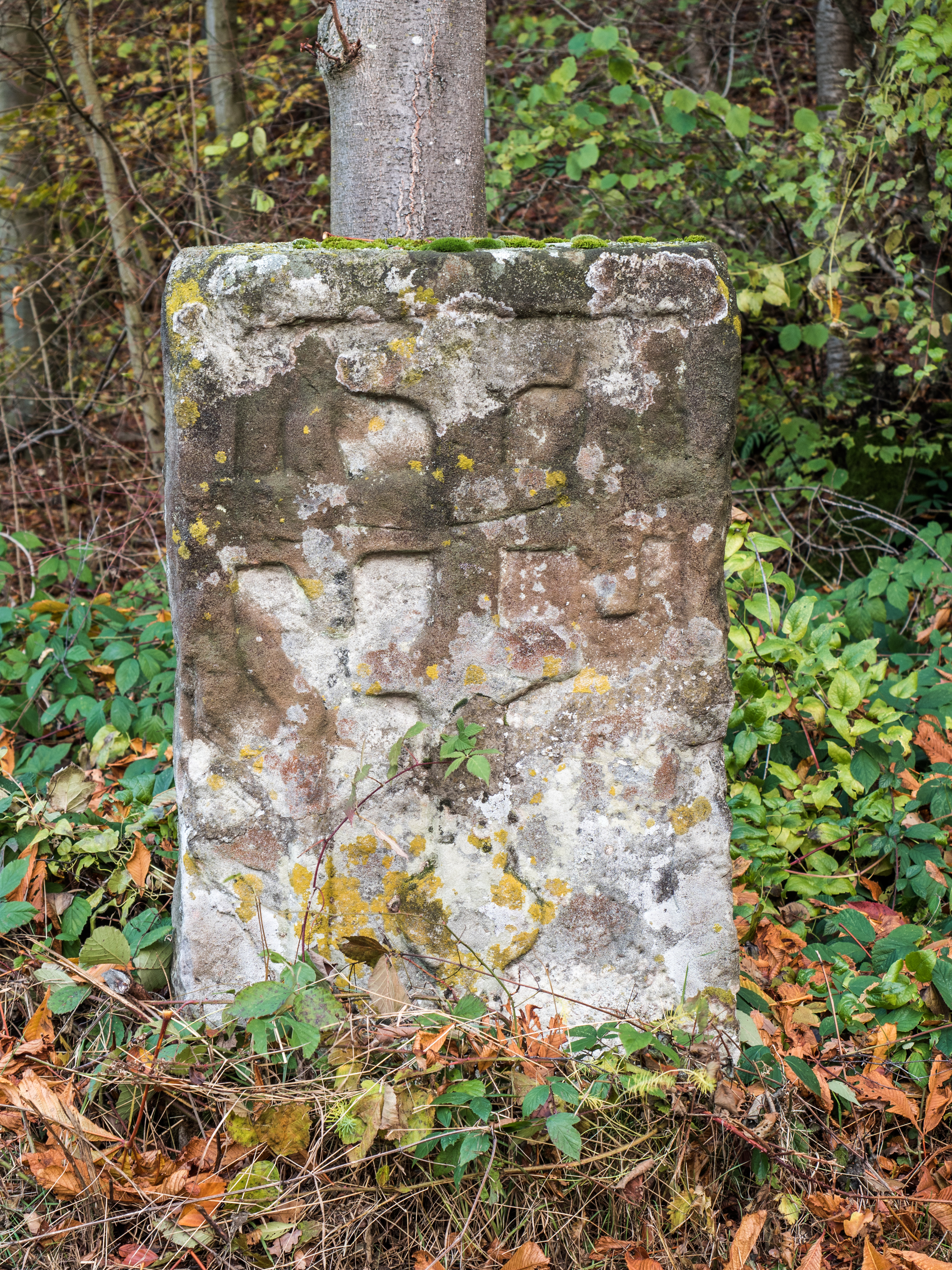 Wayside stone in Schönaich near Ebrach